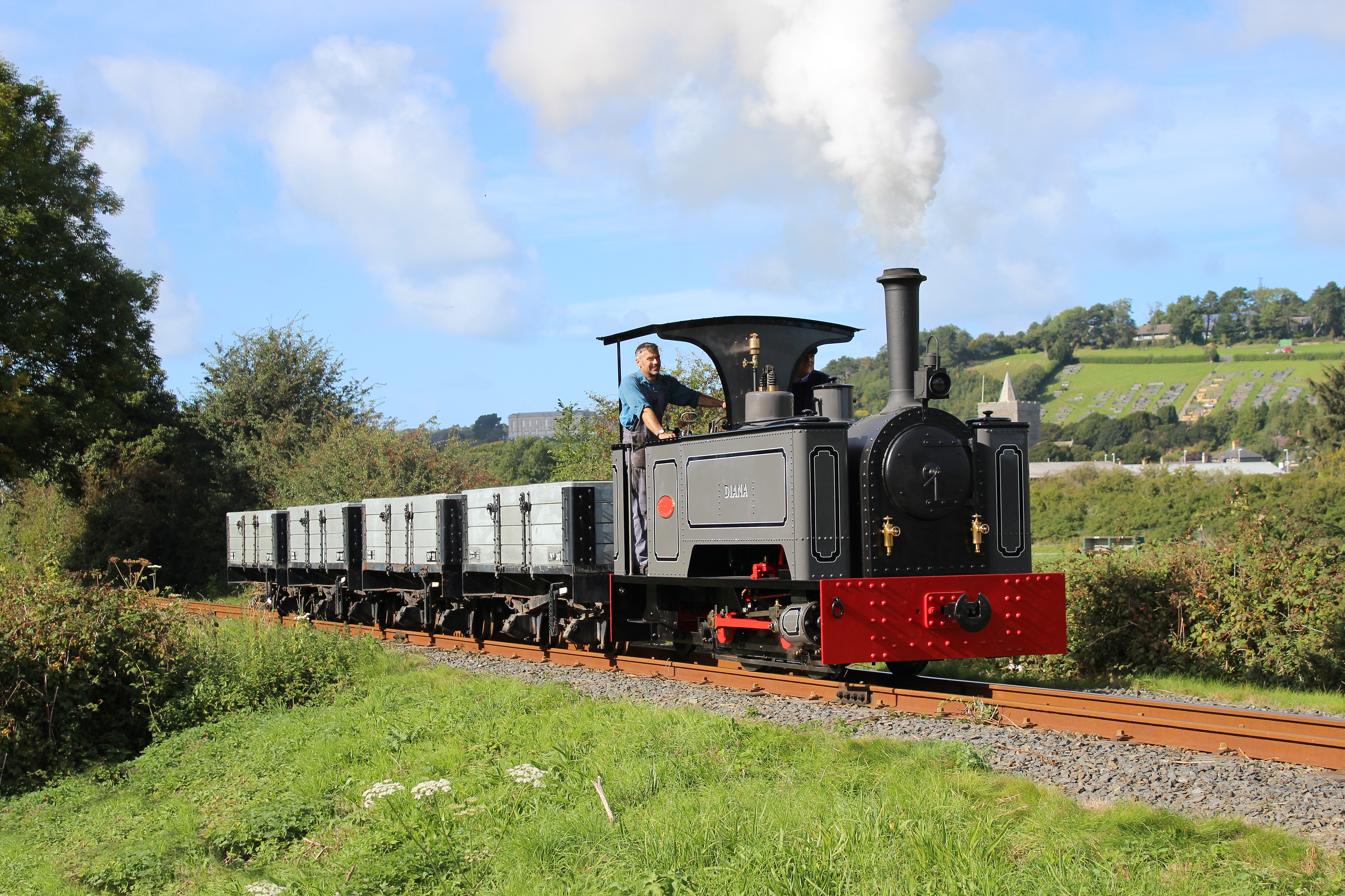 Kerr Stuart "Diana" No 1158, built 1917. Restored to working order at the Vale of Rheidol Railway. Seen during Steam Festival in September 2015. Photo - R Bance, VoR